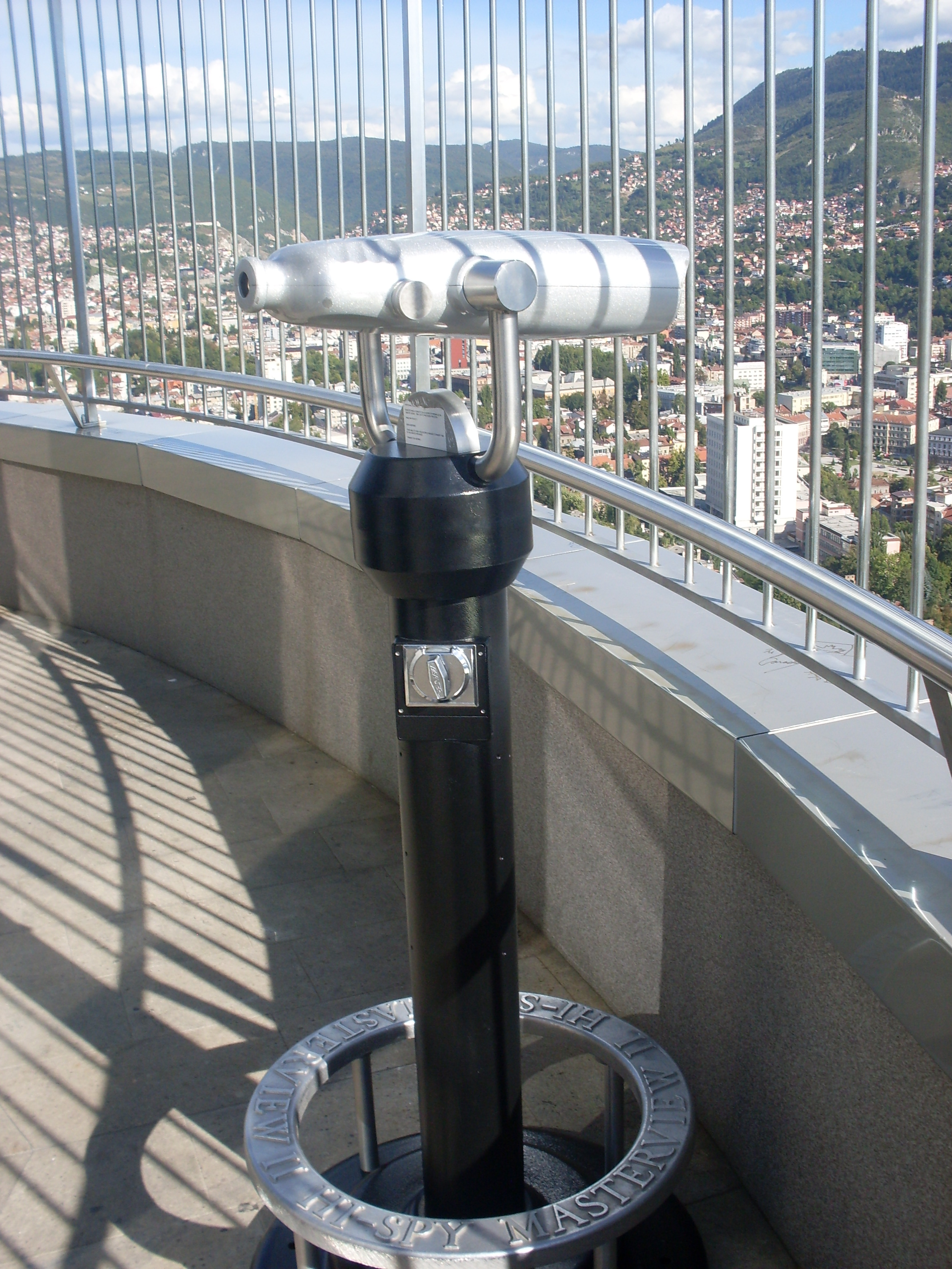 Telescope on Avaz Twist Tower